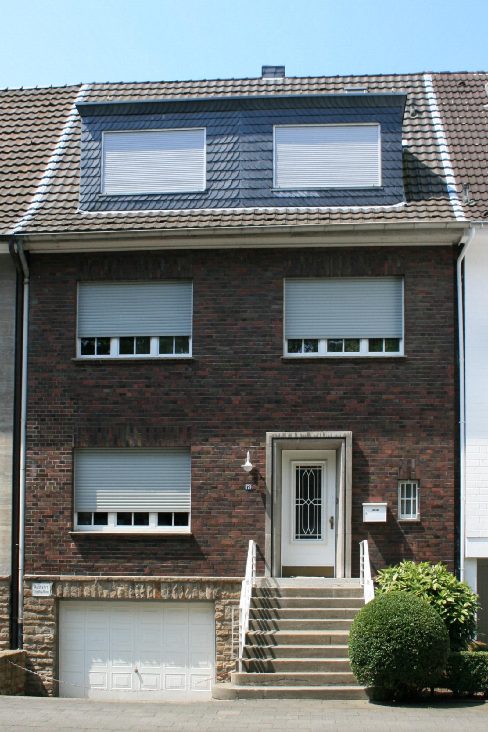 Cultural heritage monument No. B 116 in Mönchengladbach